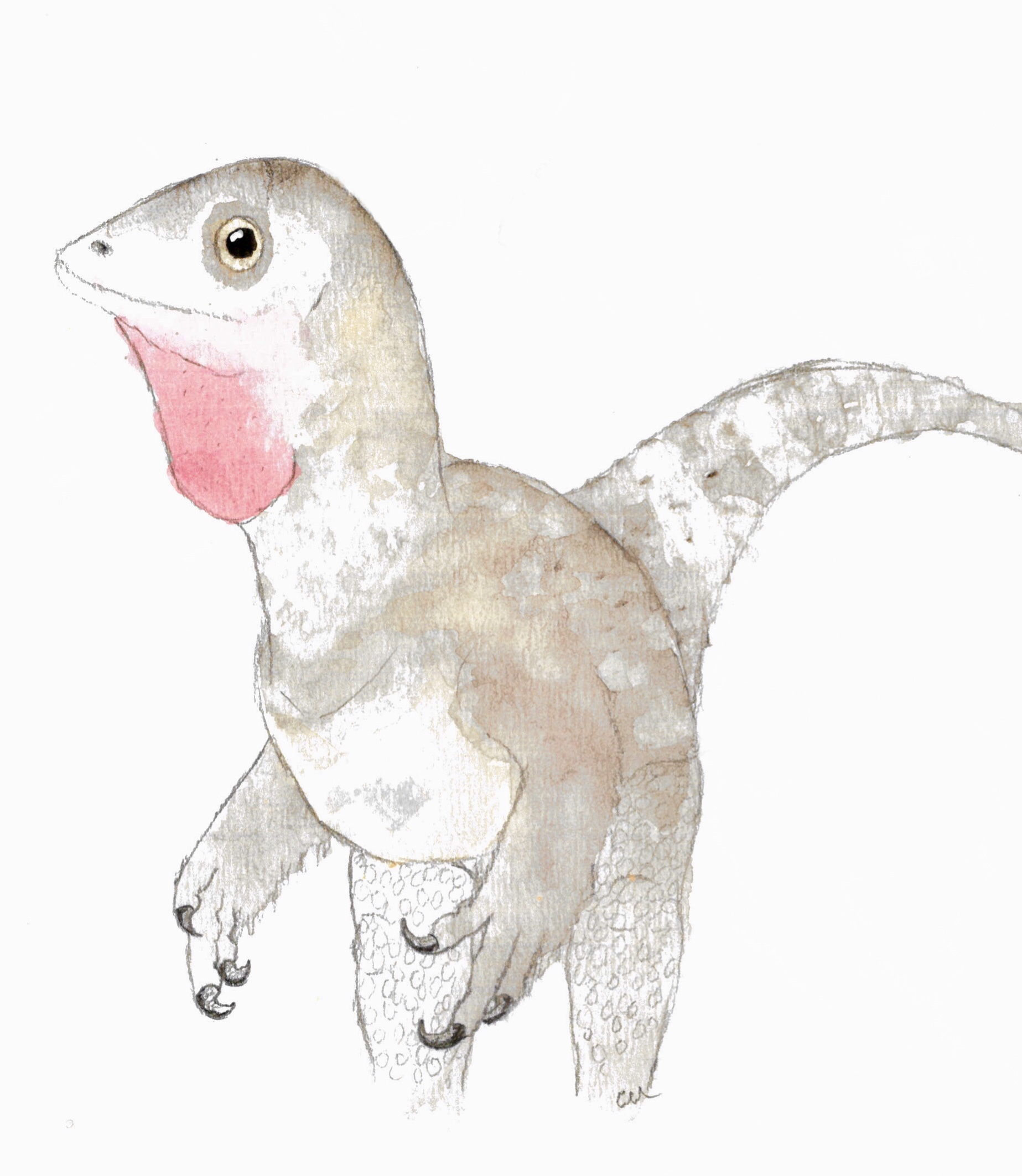 A reconstruction showing the Scipionyx holotype, Ciro